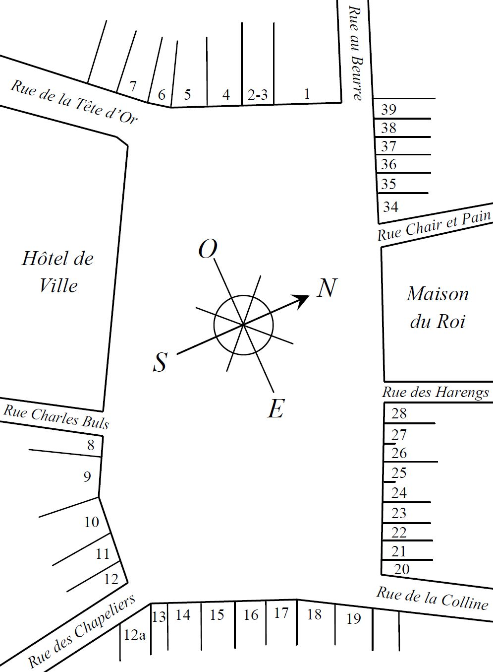 Site plan of the Grand-Place in Brussels, indicating building locations